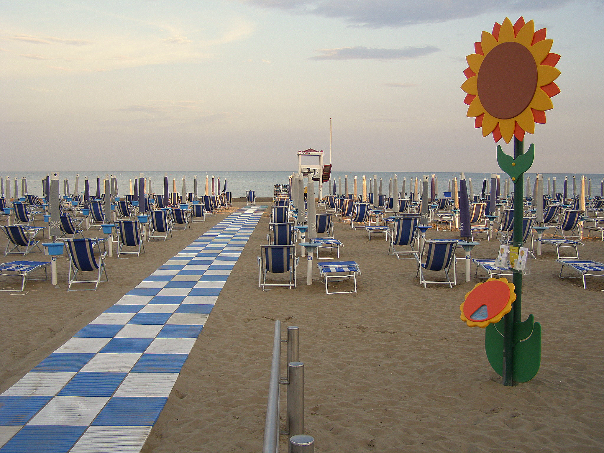 Jesolo (Venice, Italy): beach